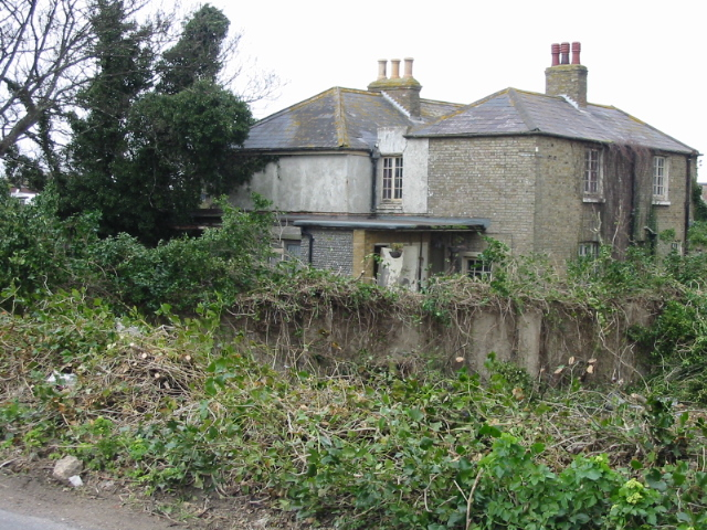 Vincent Farm, on the junction of Vincent Road and Manston Road